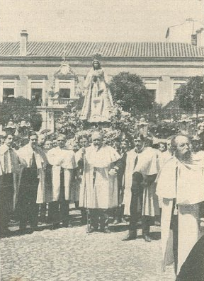 The Procession of Our Lady of Good Health, in Lisbon, Portugal, on 21 April 1904.